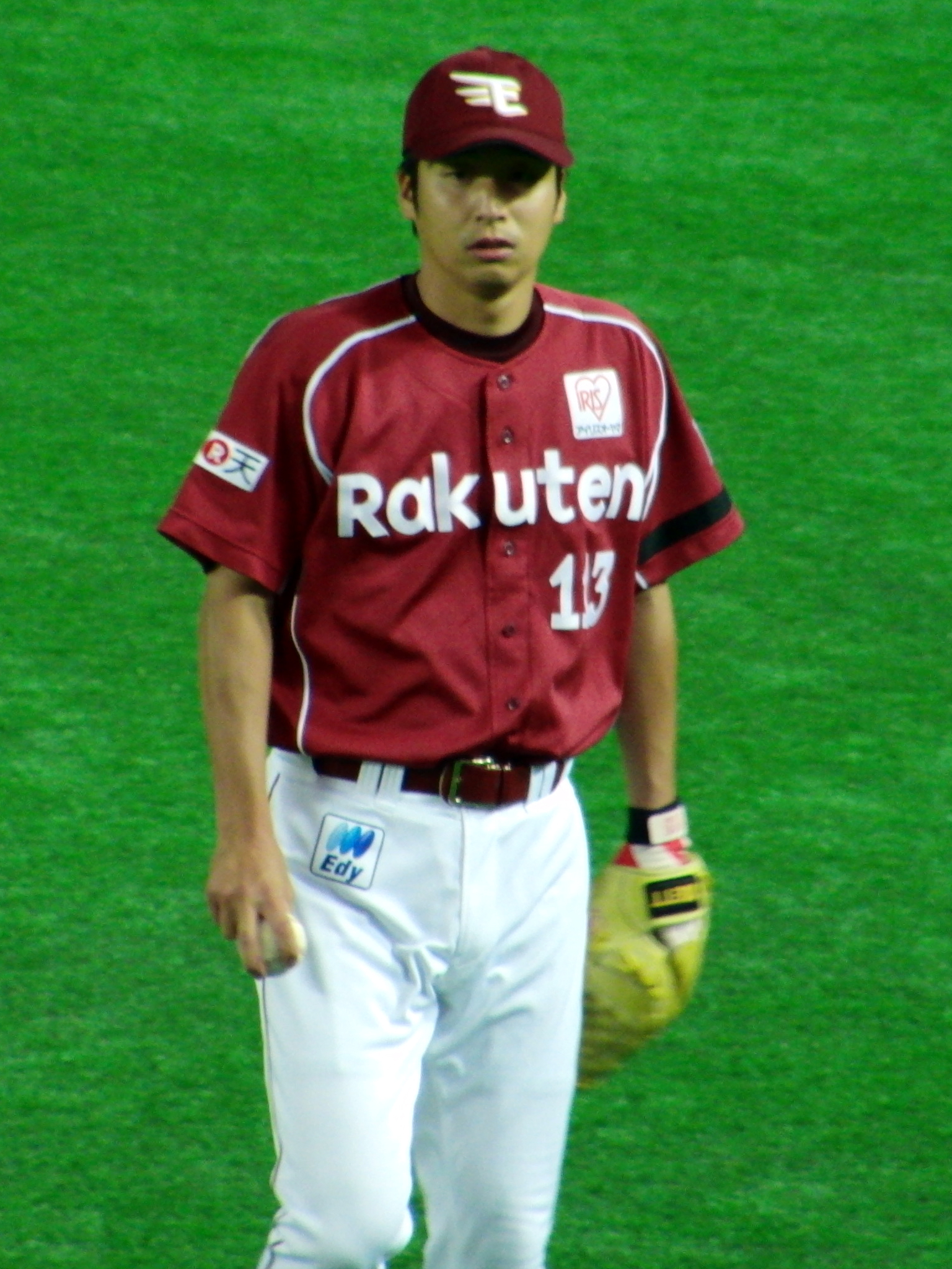 Hisatomo Kanamori, batting practice pitcher of the Tohoku Rakuten Golden Eagles, at Fukuoka Dome.